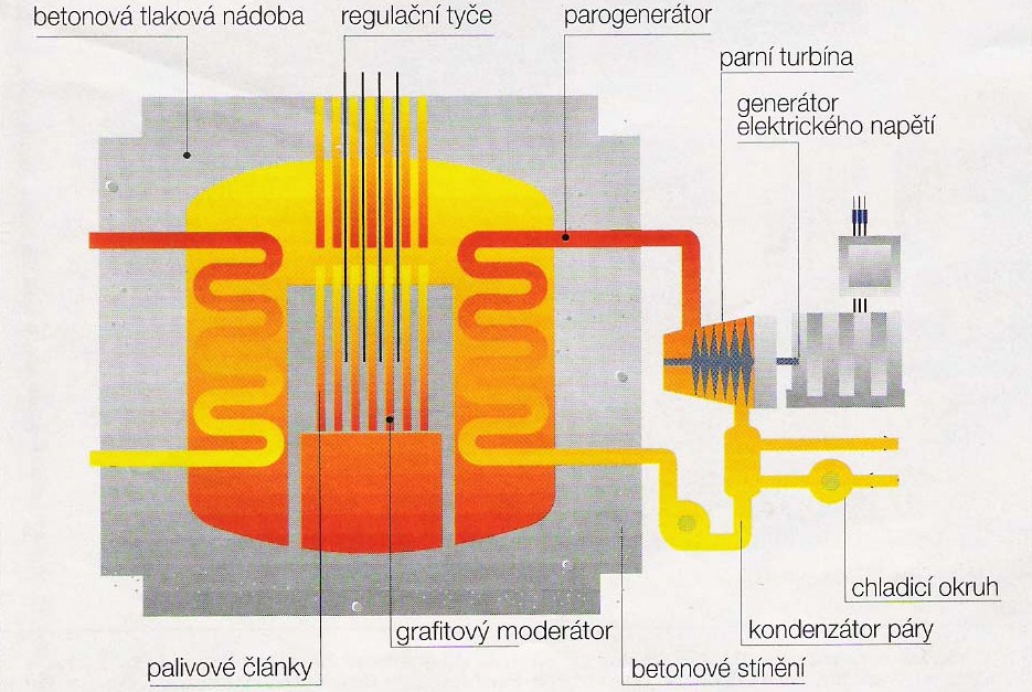 Advanced Gas Cooled reactor scheme